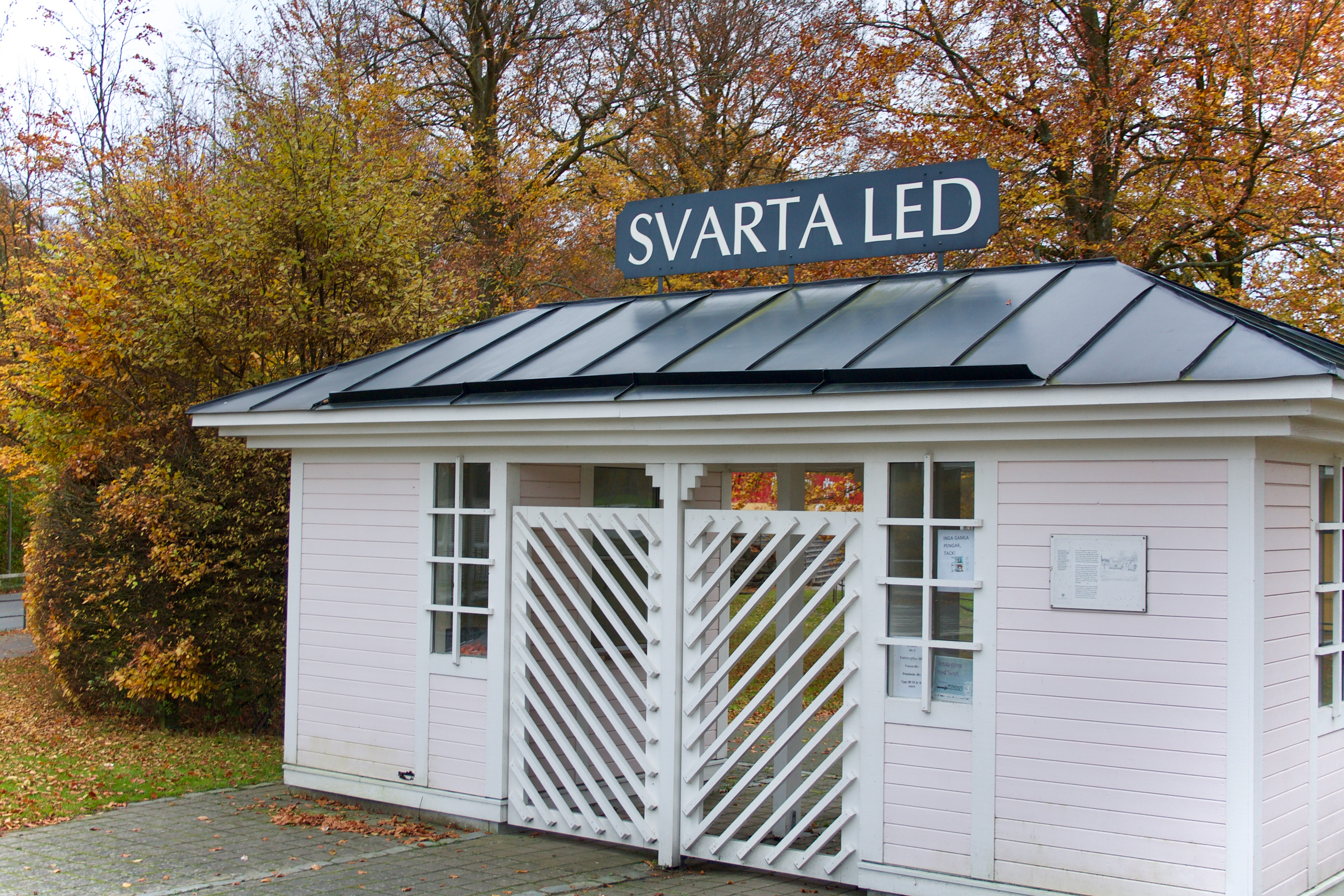 Svarta leds entré hösten 2017